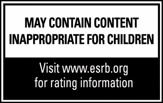 This is the warning message that the ESRB uses for some RP titles.